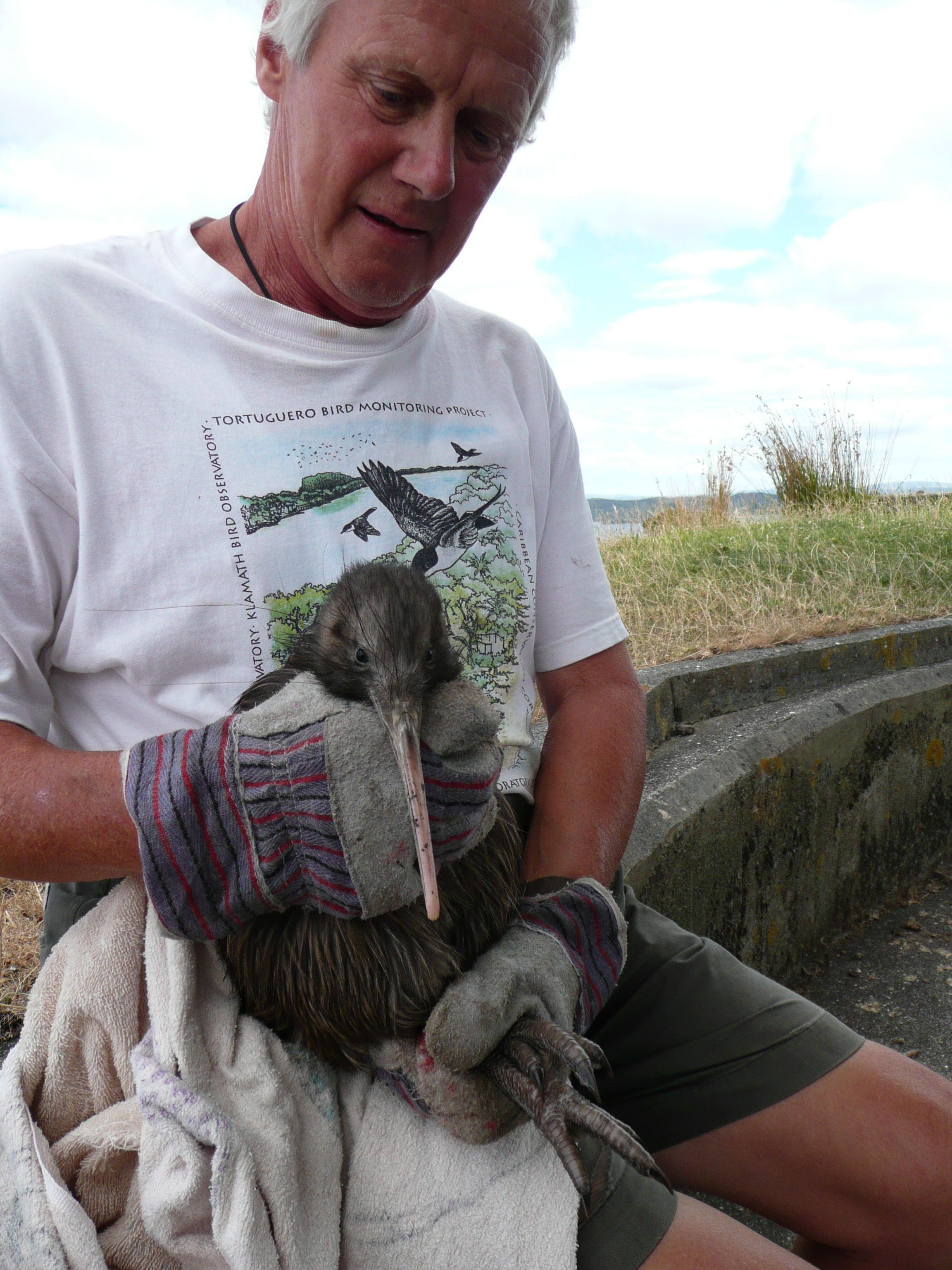 A conservationist holding a North Island Brown Kiwi on Motuora Island, Sugar Loaf Islands, New Zealand.